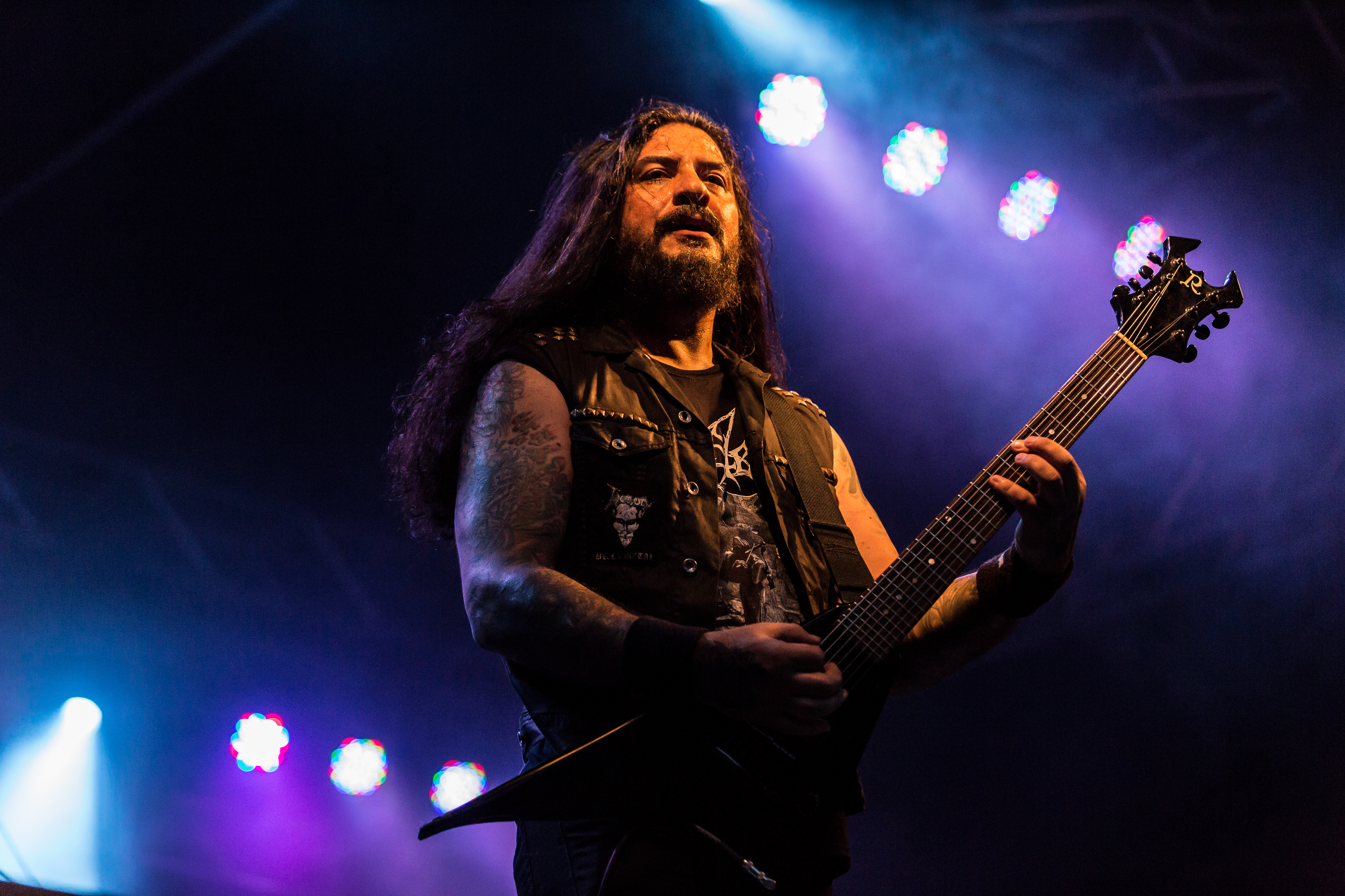 The Brazilian death metal band Krisiun at the Rock unter den Eichen Open Air 2017 in Bertingen/Germany.